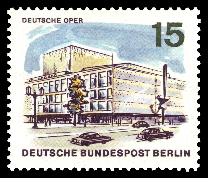 series "The new Berlin"